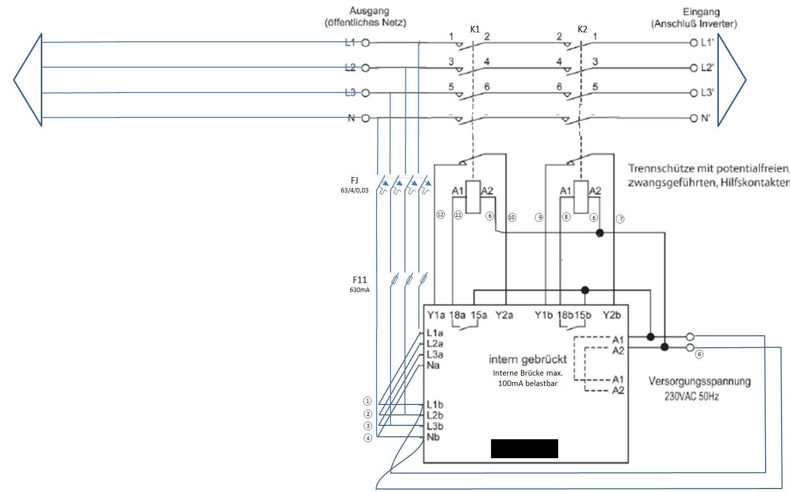 Circuit diagram of coupling switches in a PV system greater than 30 kW with a central mains and system protection.